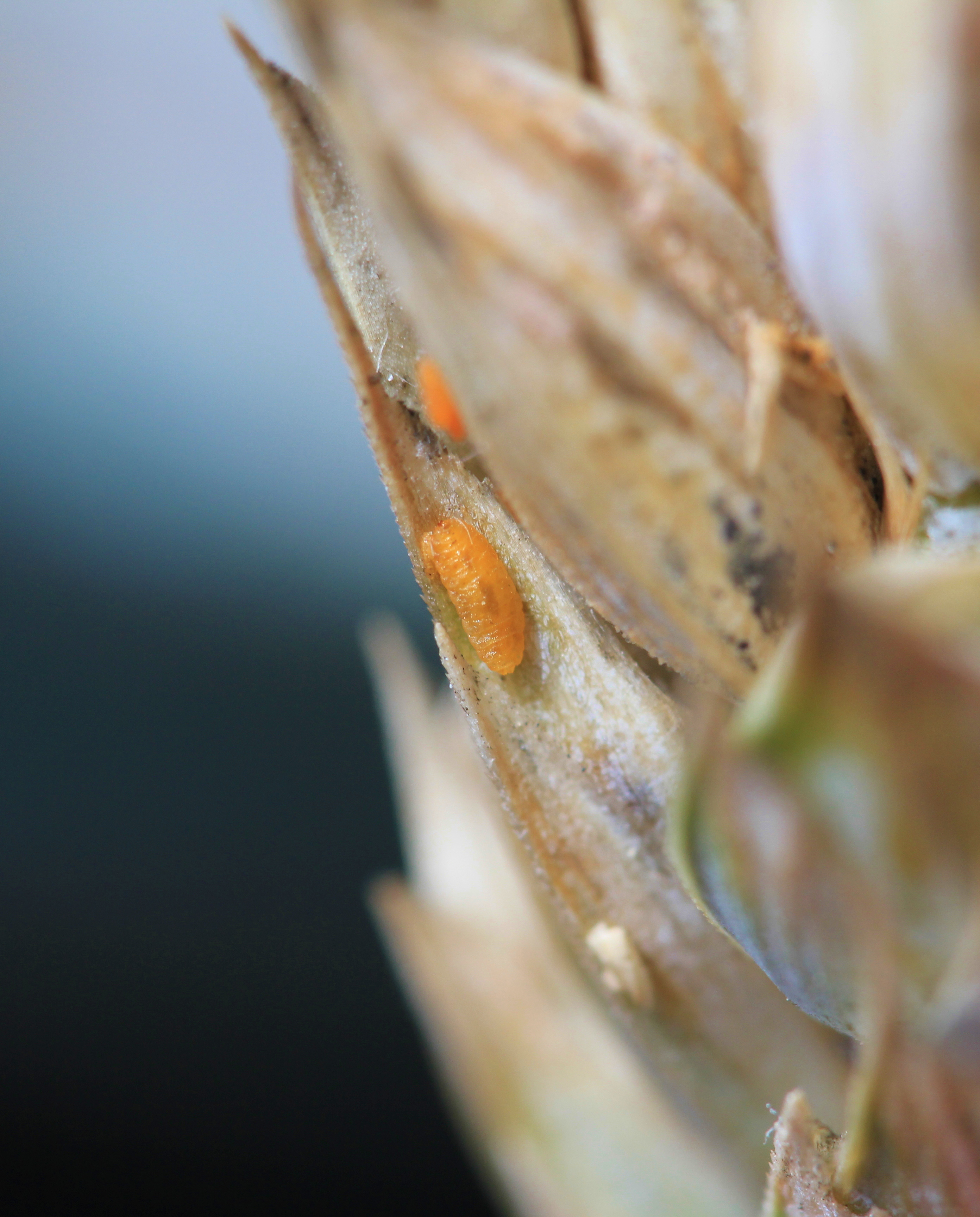 Sitodiplosis mosellana larva